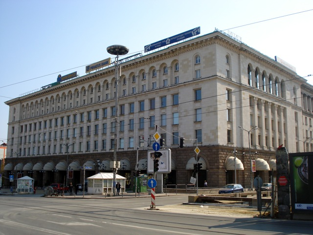 Sofia, Bulgaria, Zentralen Universalen Magazin.